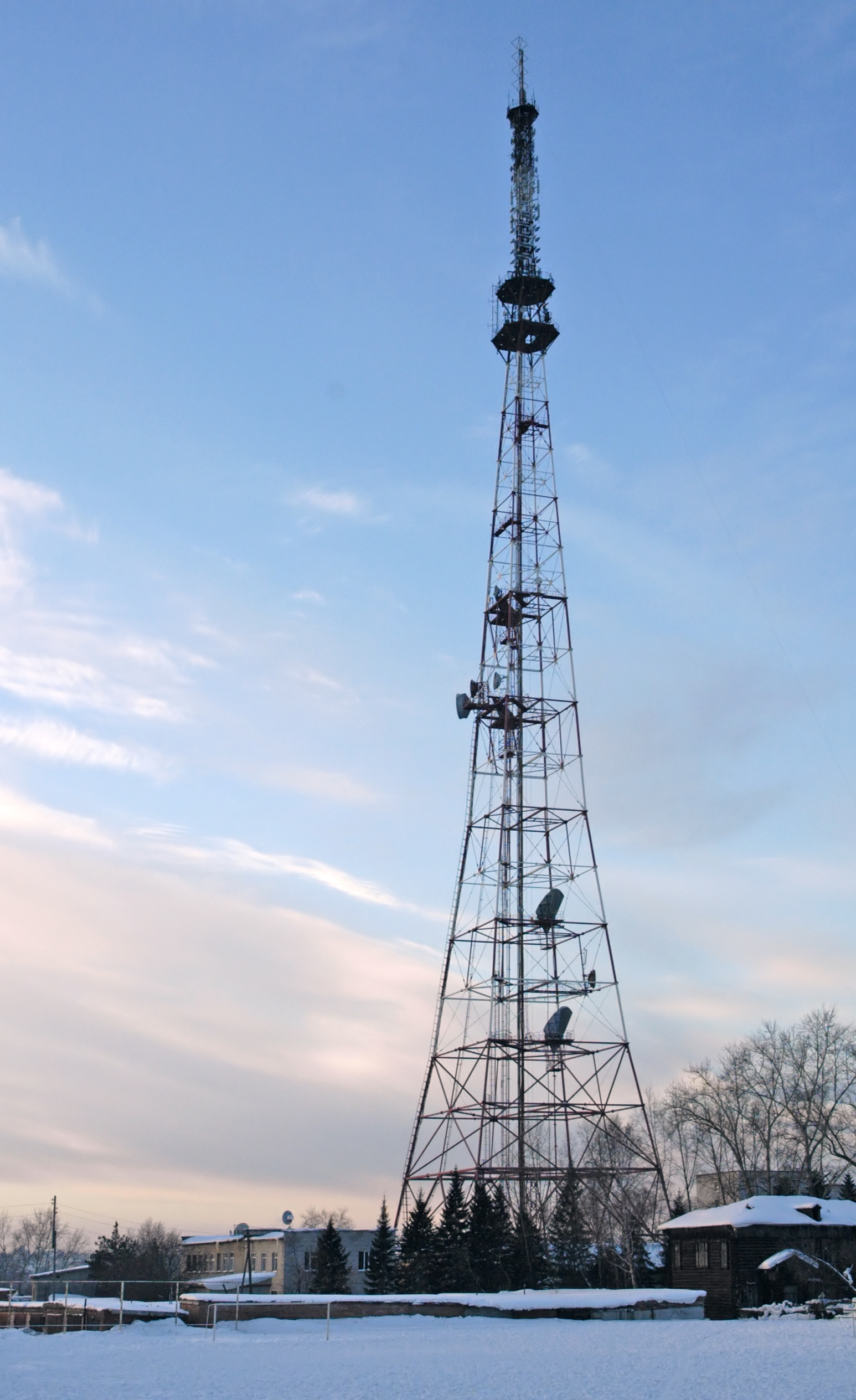 Television tower in Tomsk.